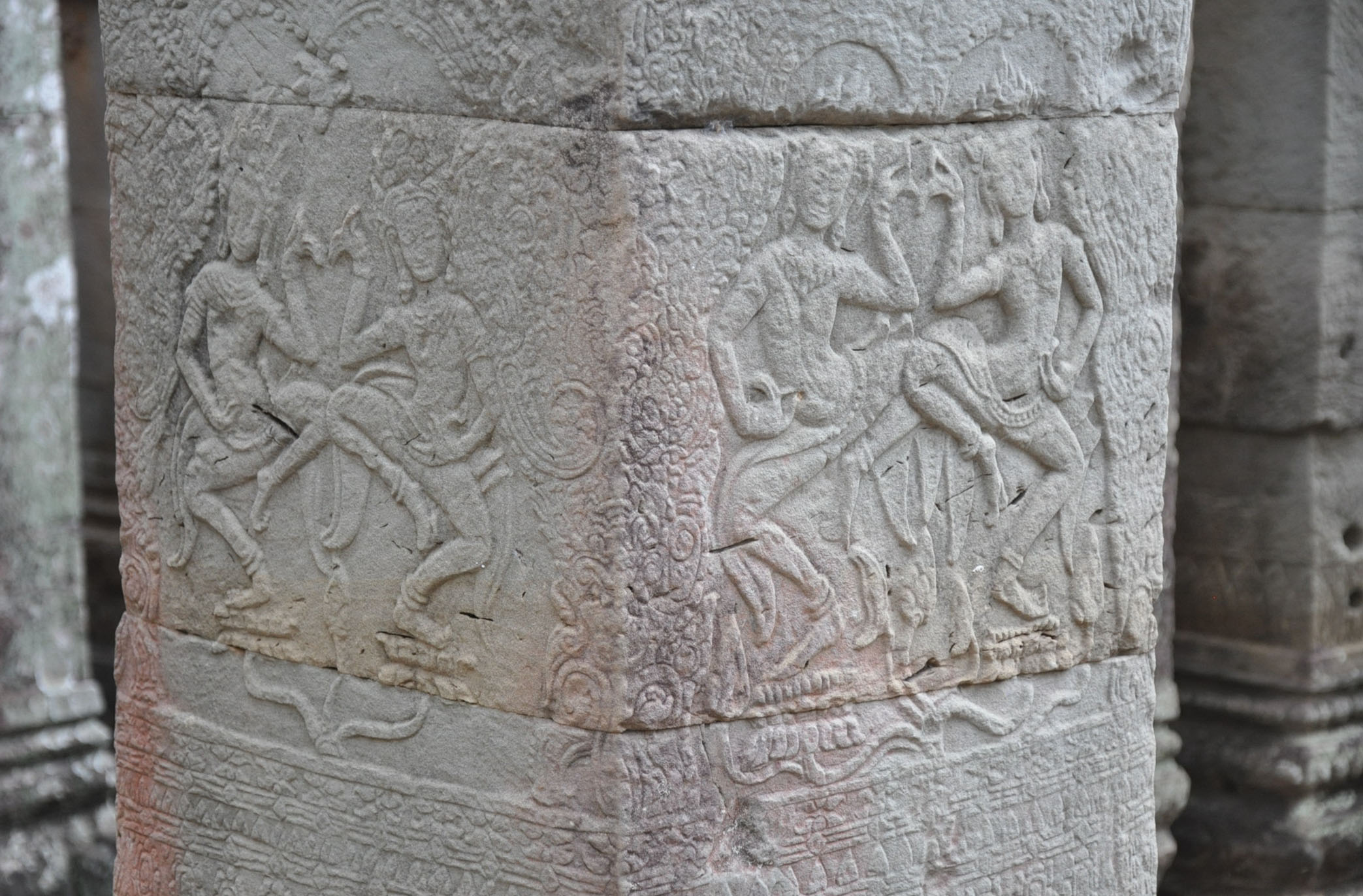 Banteay Kdei, meaning "A Citadel of Chambers"; also known as "Citadel of Monks", is a Buddhist temple in Angkor, Cambodia. It is located southeast of Ta Prohm and east of Angkor Thom. Built in the mid 12th to early 13th centuries AD during the reign of Jayavarman VII (who was posthumously given the title "Maha paramasangata pada"), it is in the Bayon architectural style, similar in plan to Ta Prohm and Preah Khan, but less complex and smaller. Its structures are contained within two successive enclosure walls, and consist of two concentric galleries from which emerge towers, preceded to the east by a cloister. This Buddhist monastic complex is currently dilapidated due to faulty construction and poor quality of sandstone used in its buildings, and is now undergoing renovation. Banteay Kdei had been occupied by monks at various intervals over the centuries till 1960s.